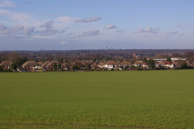 The edge of London! Taken from the viewpoint on Chelsfield Green (see 678611), the field in the foreground marks the start of the (literally!) green belt. The line of houses beyond is in "The Highway" in Orpington, and represents the start of a virtually continuous built up area for over 20 miles across London. No doubt without the introduction of the green belt after the second world war, this field would have been covered in housing, depriving us of this view across south and east London. Visible on the skyline towards the left of the picture is the City of London, and in the centre is Canary Wharf. Although out of the picture to the left, other landmarks visible from here include the BT Tower, the Wembley Arch and Crystal Palace TV transmitter. For the continuation of the view to the right see 678662.